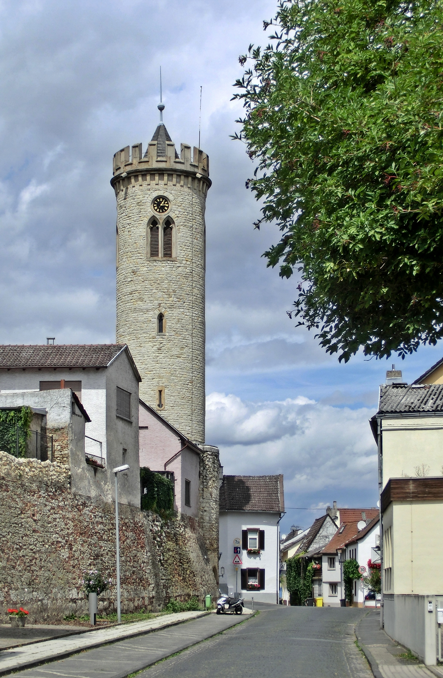 Clock tower (Uhrturm) of Oppenheim, Rhineland-Palatinate.